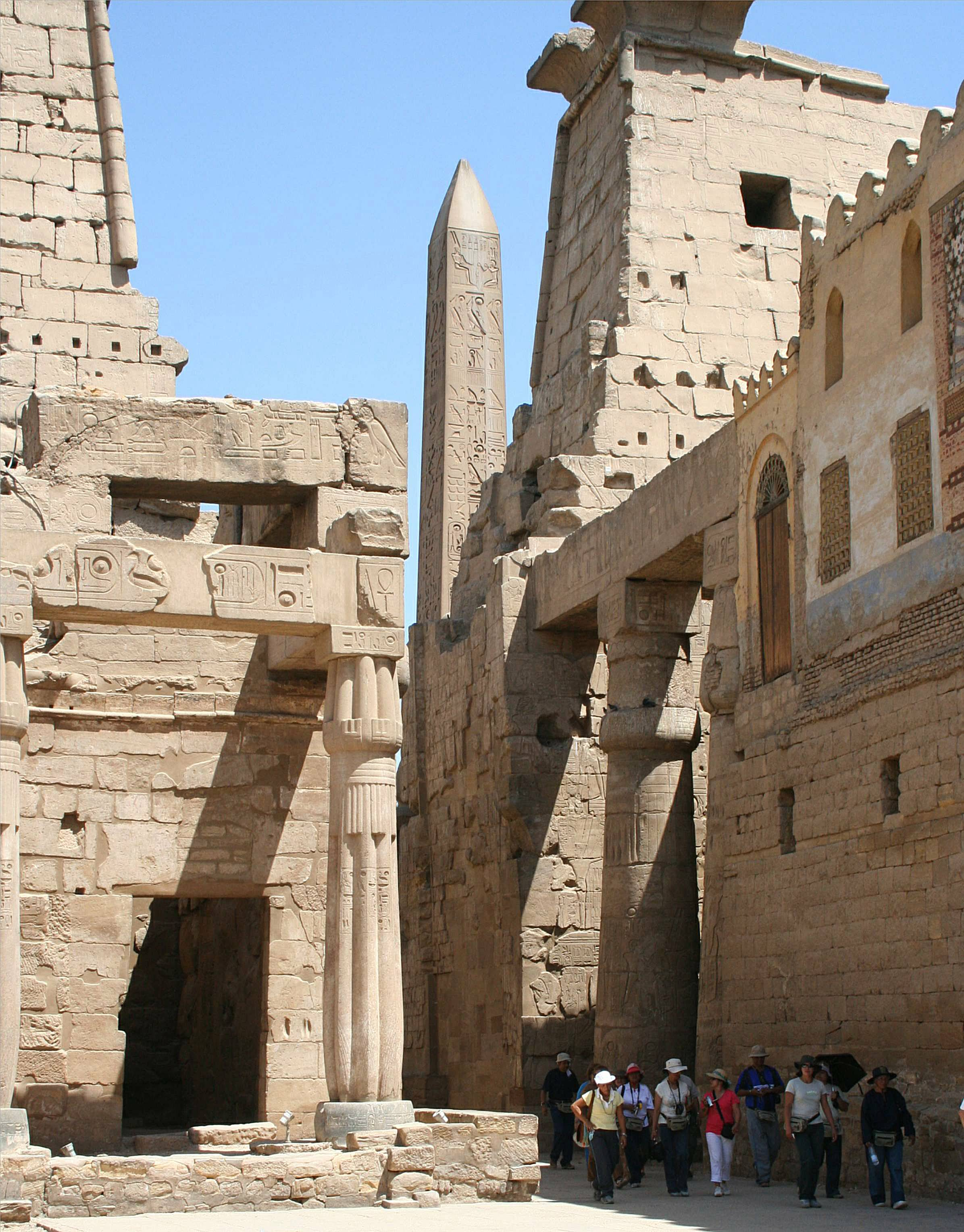 Luxor obelisk seen from inside the great hall of the Luxor Temple